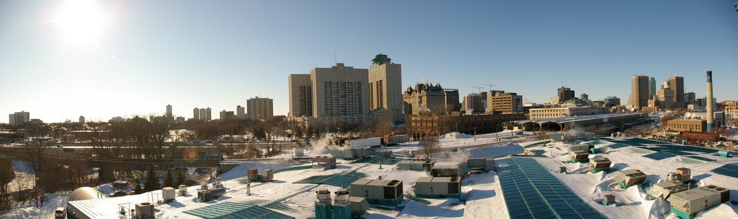 winnipeg skyline from the forks